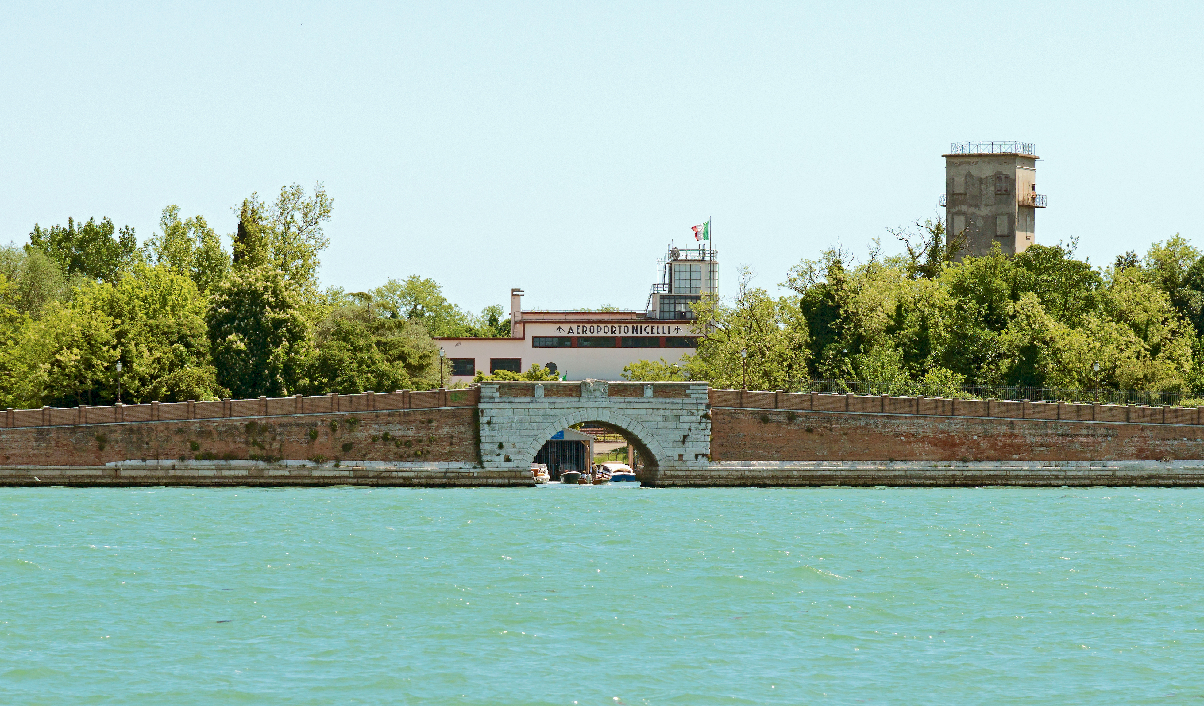 Ponte on rio Nicelli Lido of Venice, background Giovanni Nicelli airport.